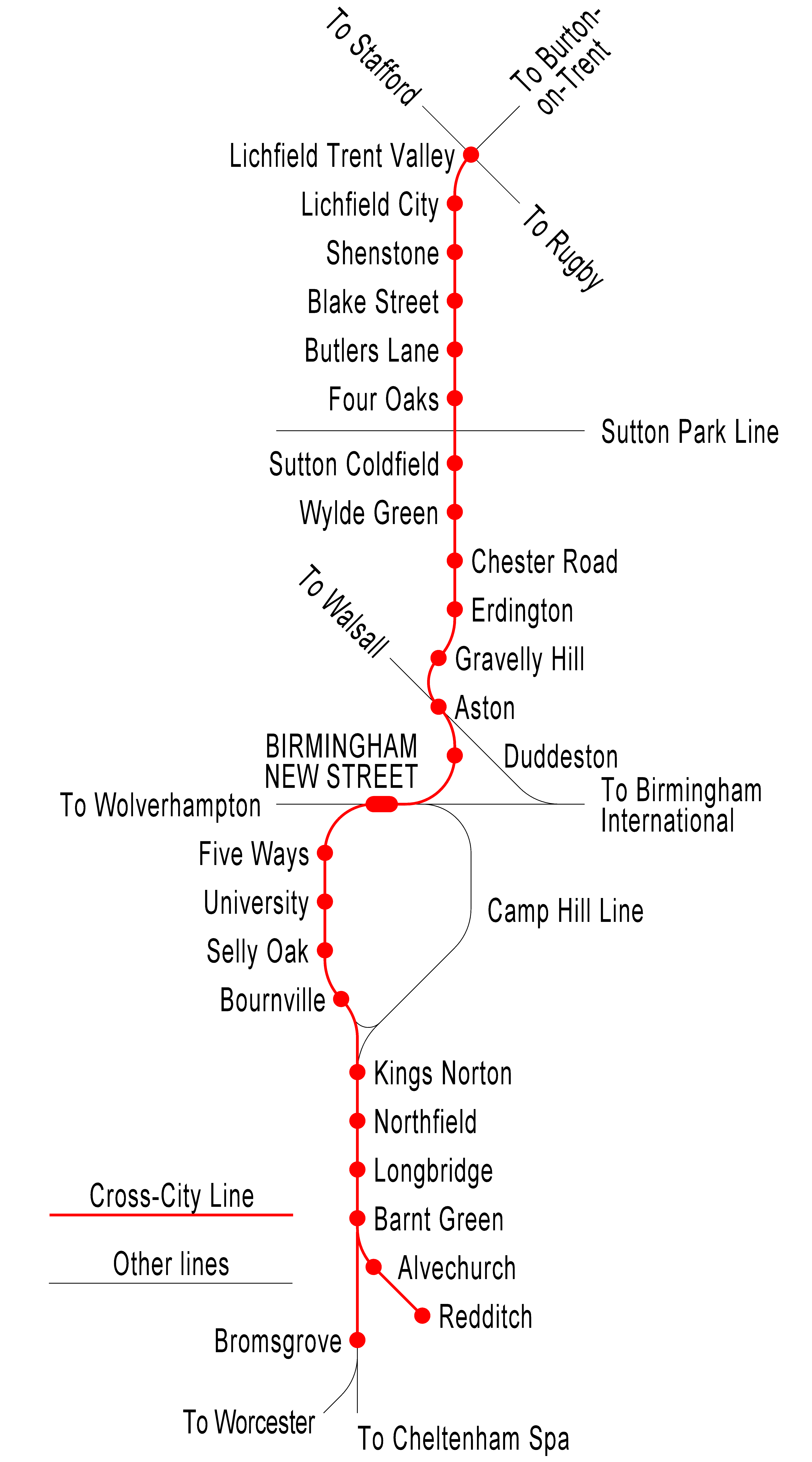 Diagrammatic map of the Cross-City Line; image created using MicroStation and exported as a png file.